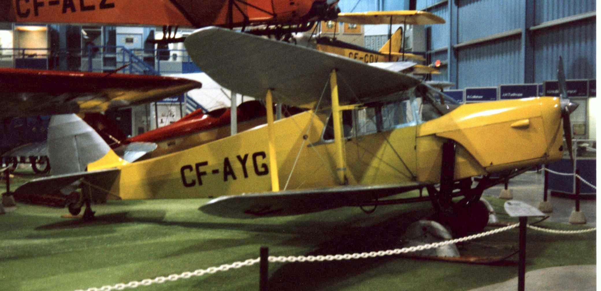 de Havilland DH.87A Hornet Moth retaining original pointed wingtips at Wetaskiwin, Alberta, Canada